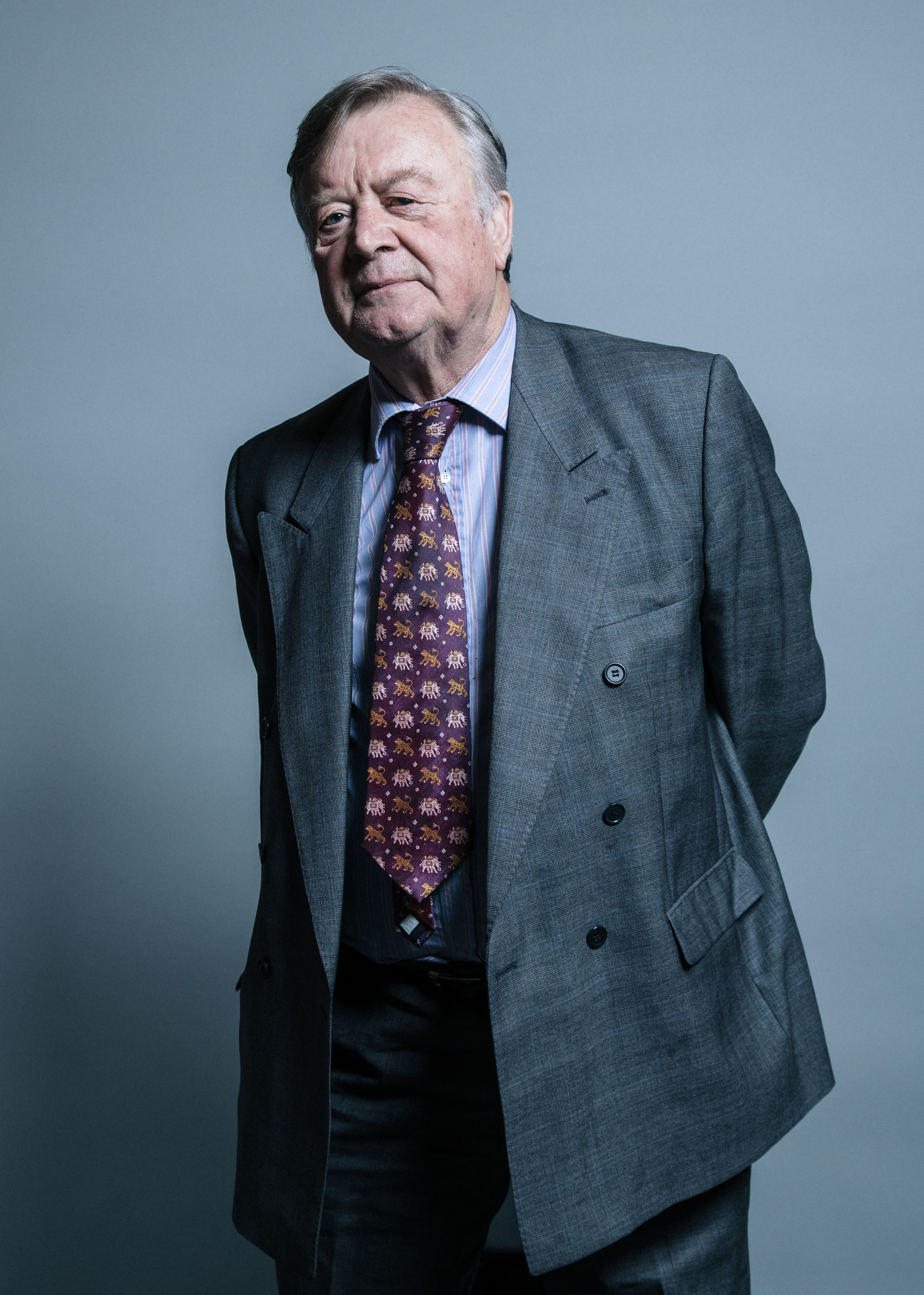 Official Parliamentary photograph of Kenneth Clarke MP. For confirmation of licence